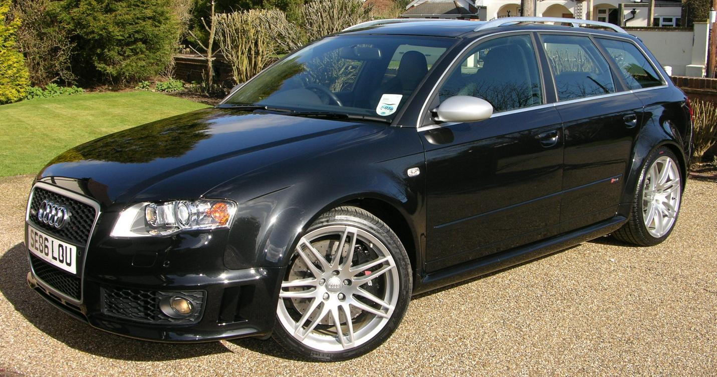 2006 Audi RS4 Avant B7